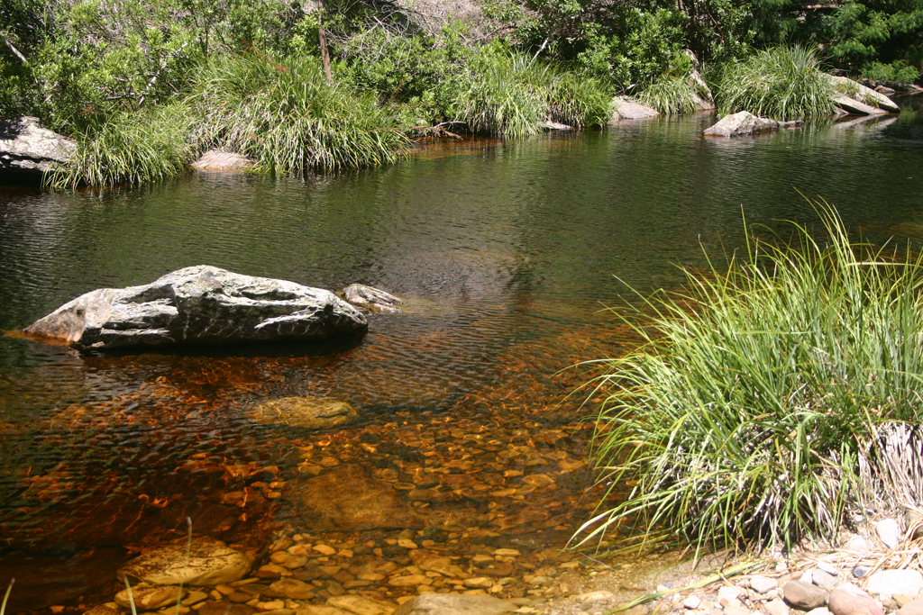 Prionium serratum on Bloukrans River (Garden Route)